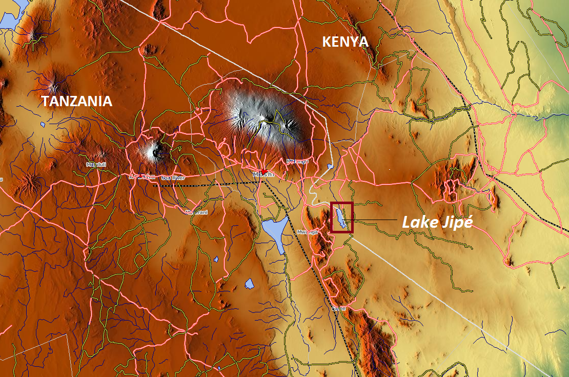 Map showing Lake Jipe